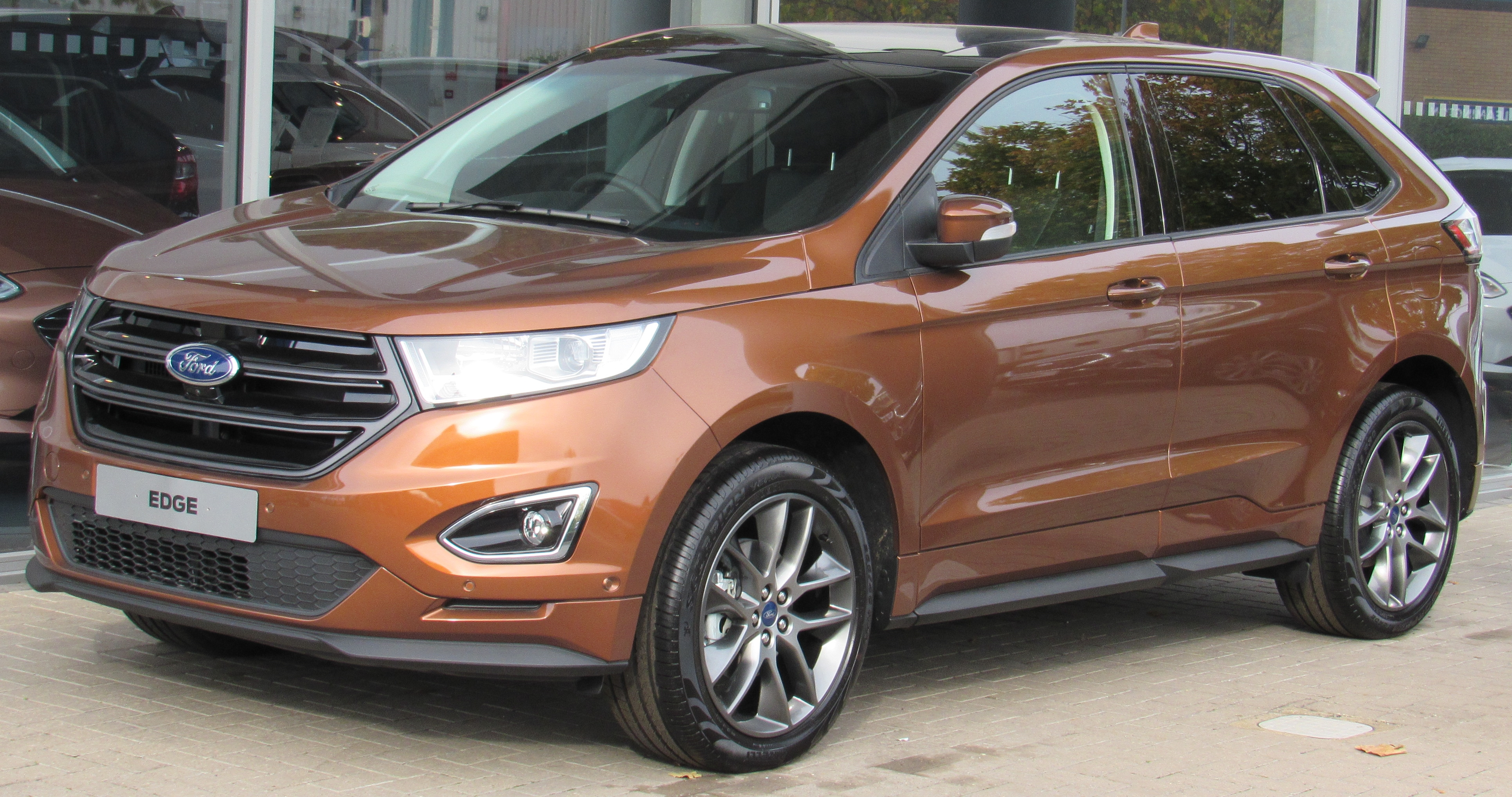 2017 Ford Edge (1) Taken in Leamington Spa